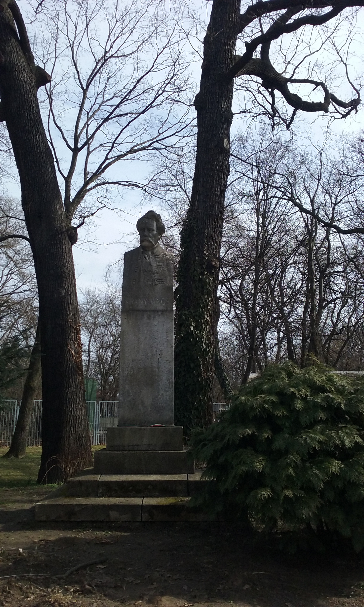 Statue of János Arany, Hungarian poet on Margaret Island, Budapest, Hungary, on 29 February 2020